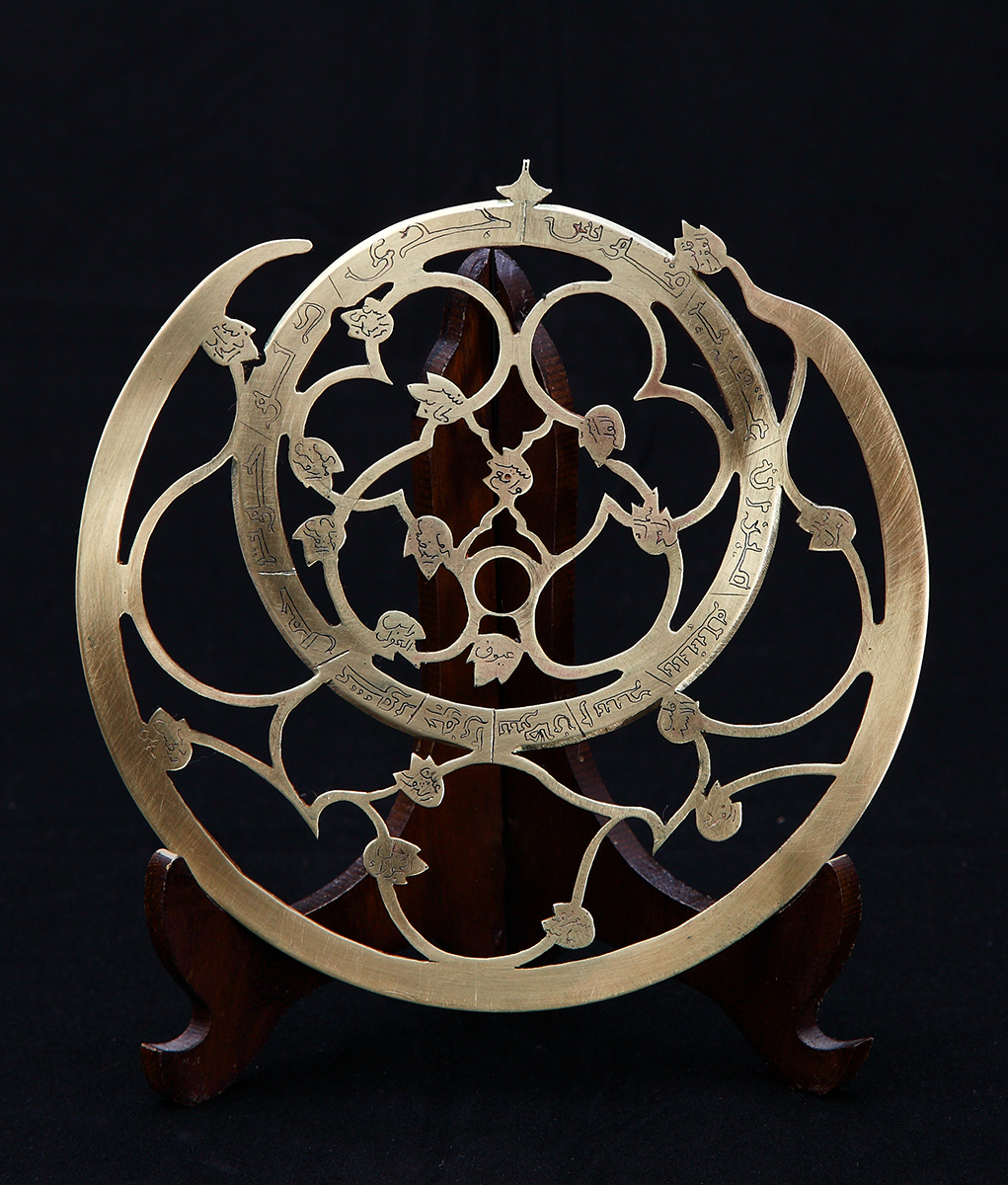 A new Iranian flat Astrolabe, made in Tabriz in 2013, by Jacopo Koushan. Made from brass. It is an ancient astronomical tool. Photographs by Masoud Safarniya.